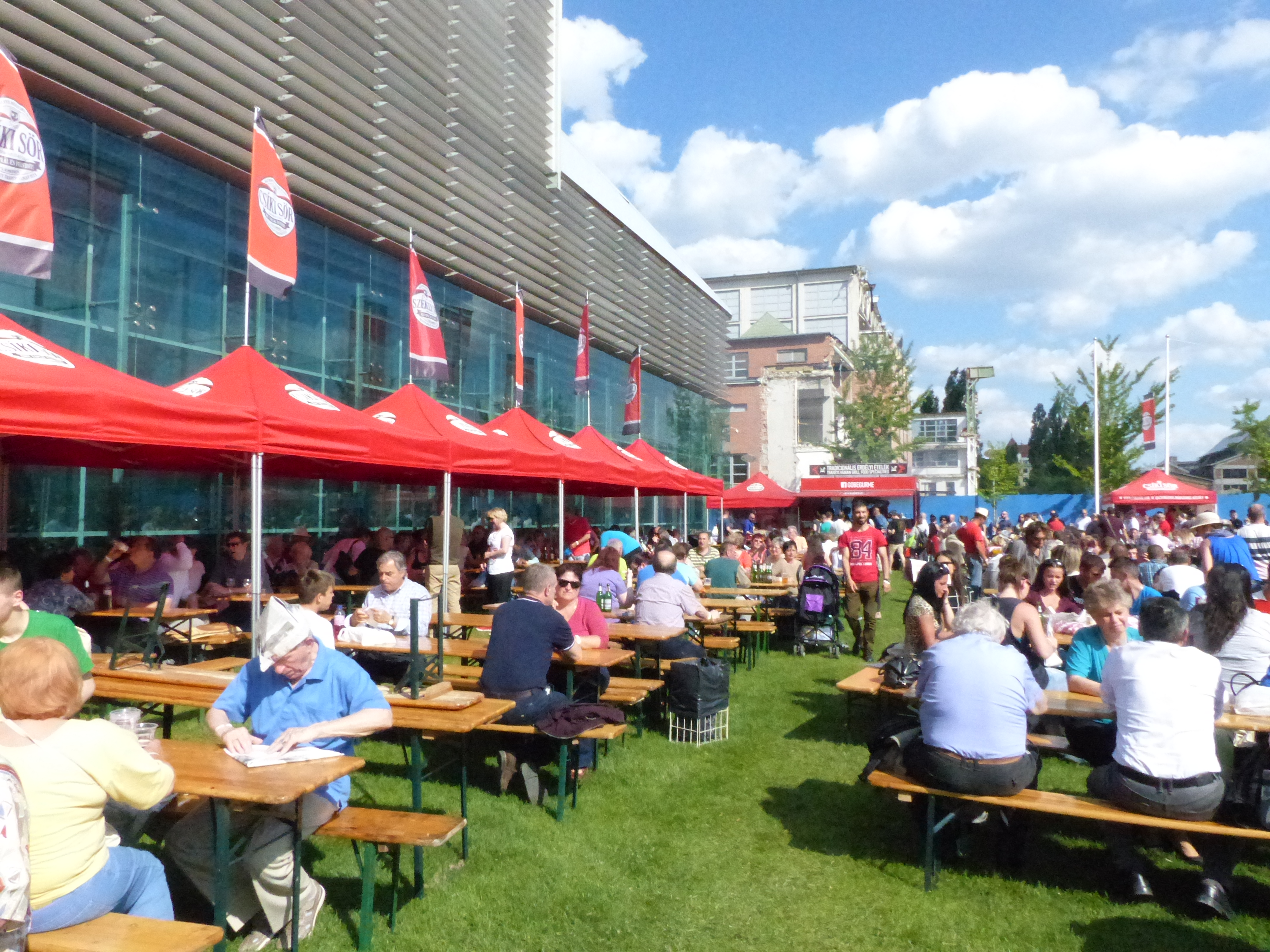 III. Székely Festival. Festival of the Székely Land. Taken on Sunday, 14th of May, 2017.